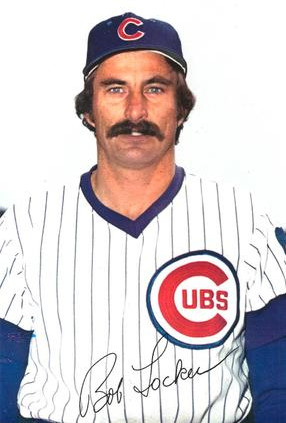 Professional baseball player Bob Locker